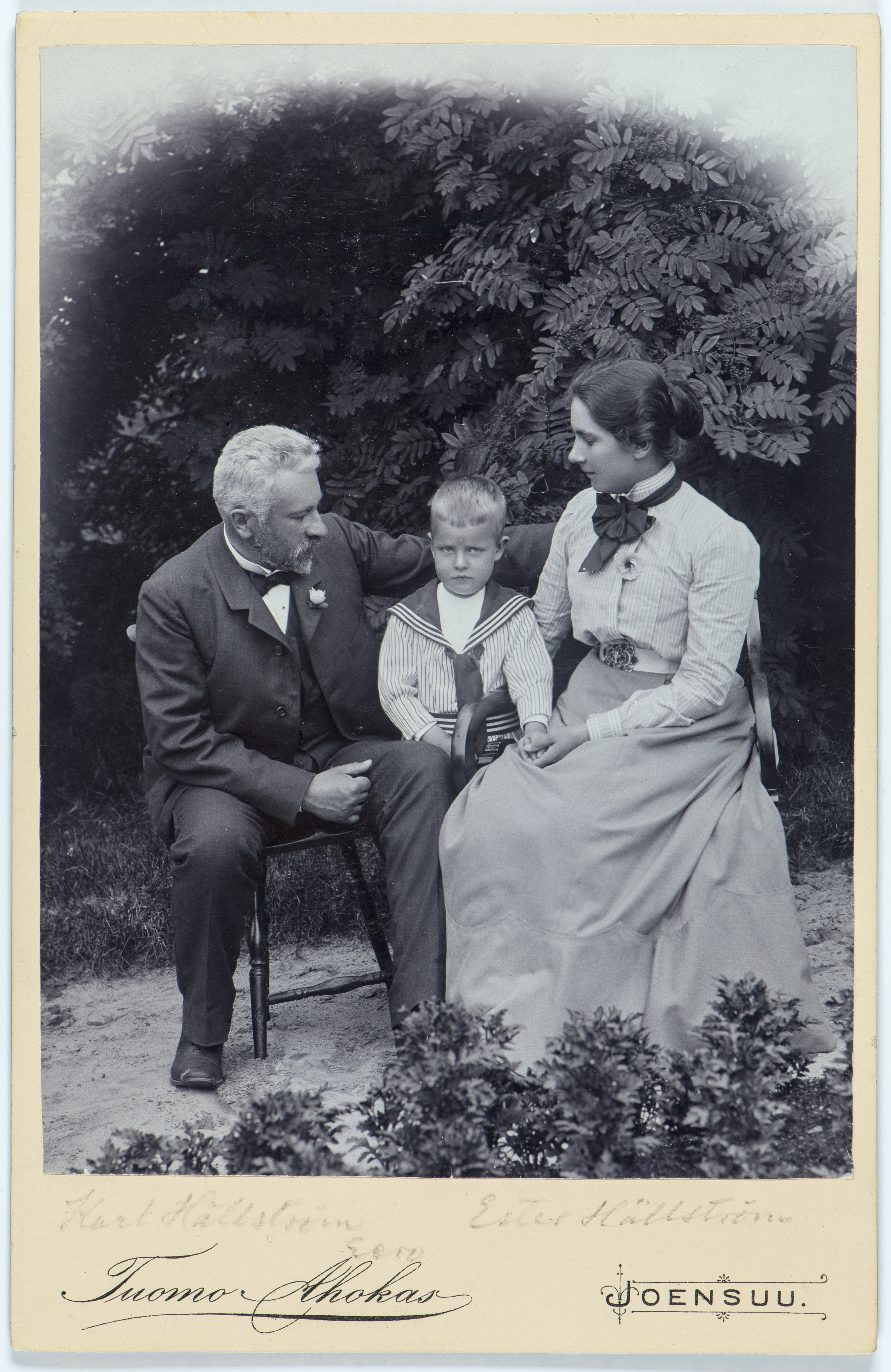 Karl, Eero and Ester Hällström